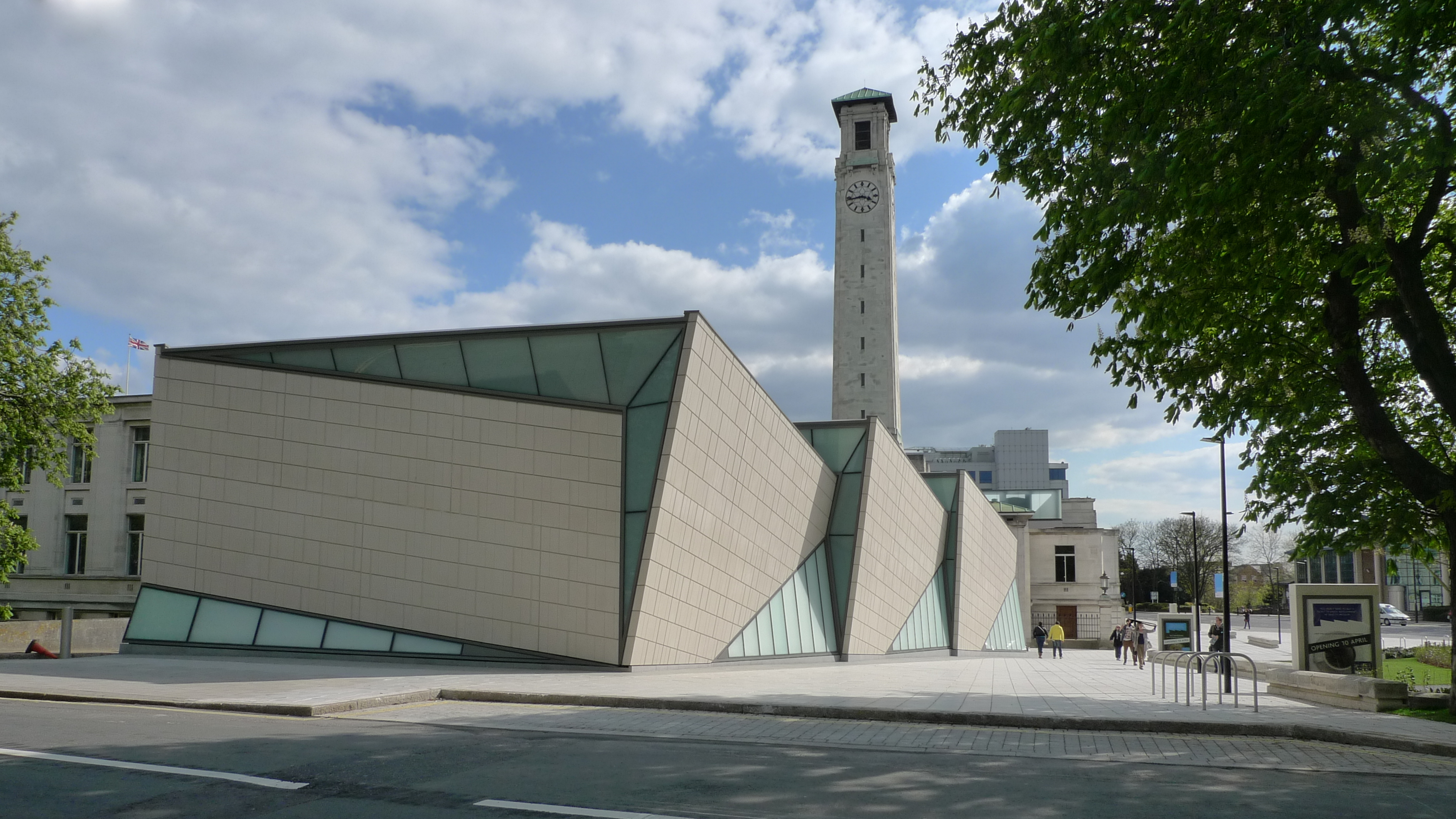 SeaCity Museum, Civic Centre, Southampton. Image taken from the North. The pavilion in the foreground was built in 2012 and designed by Wilkinson Eyre. It, and the adjoining magistrates block of the Southampton Civic Centre now house SeaCity Museum. SeaCity Museum official website